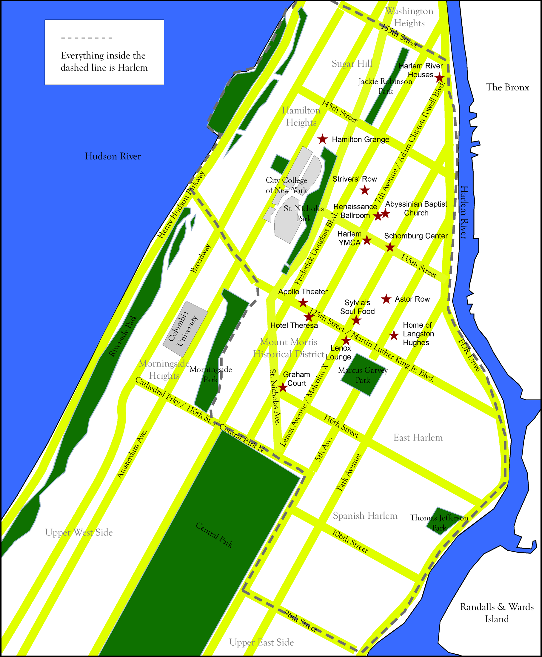 Map of Harlem